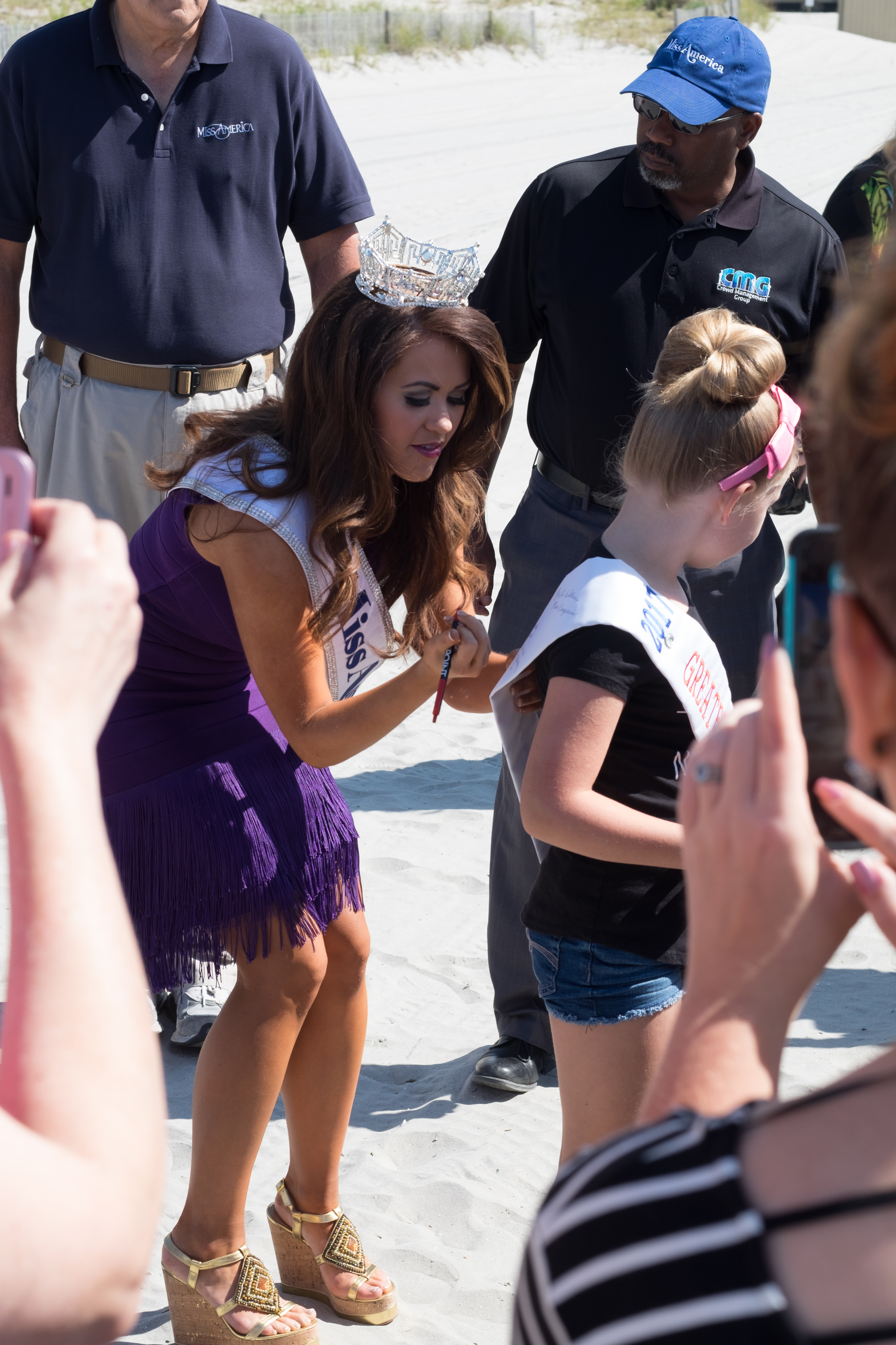 Cara Mund, Miss America 2018, signs a sash for a fan during her "toe dip" appearance behind Boardwalk Hall in Atlantic City, NJ.